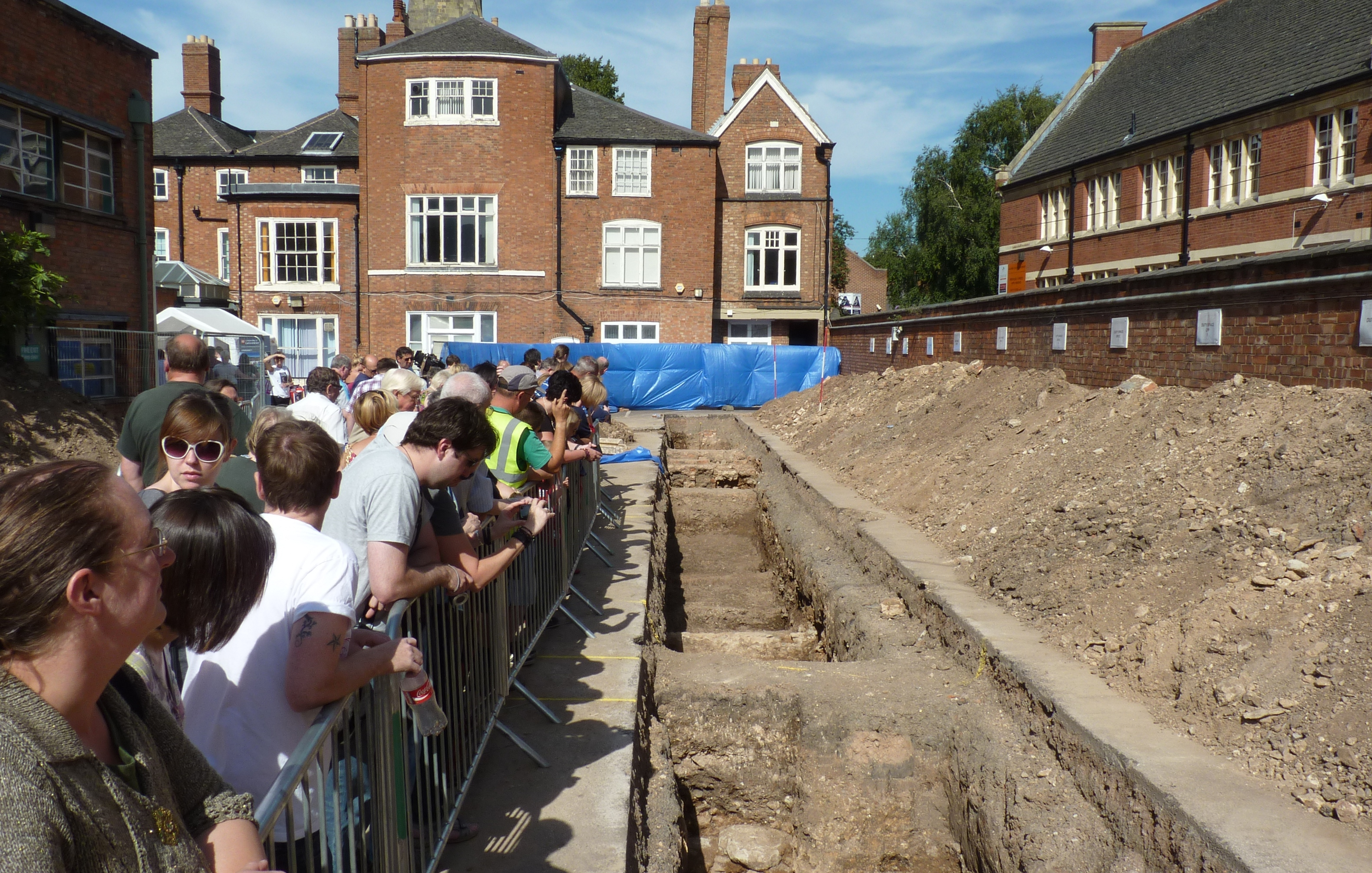 Archaeological dig Open Day at Greyfriars, Leicester, Sept 8th 2012. The dig hopes to find the burial place of Richard III. An exposed stone at the bottom of the picture is interpreted as a stone seat from the Chapter House. Trench 2 cuts through a car park used by Leicester Social Services, and through soil from the gardens of the 16th/17th Century Herrick mansion, to reveal church walls crossing the trench at the two ranging rods, interpreted as walls of the Church Choir, and between which an adult male burial was found. The building to the right is the old Alderman Newton's 'Greencoat' school building.